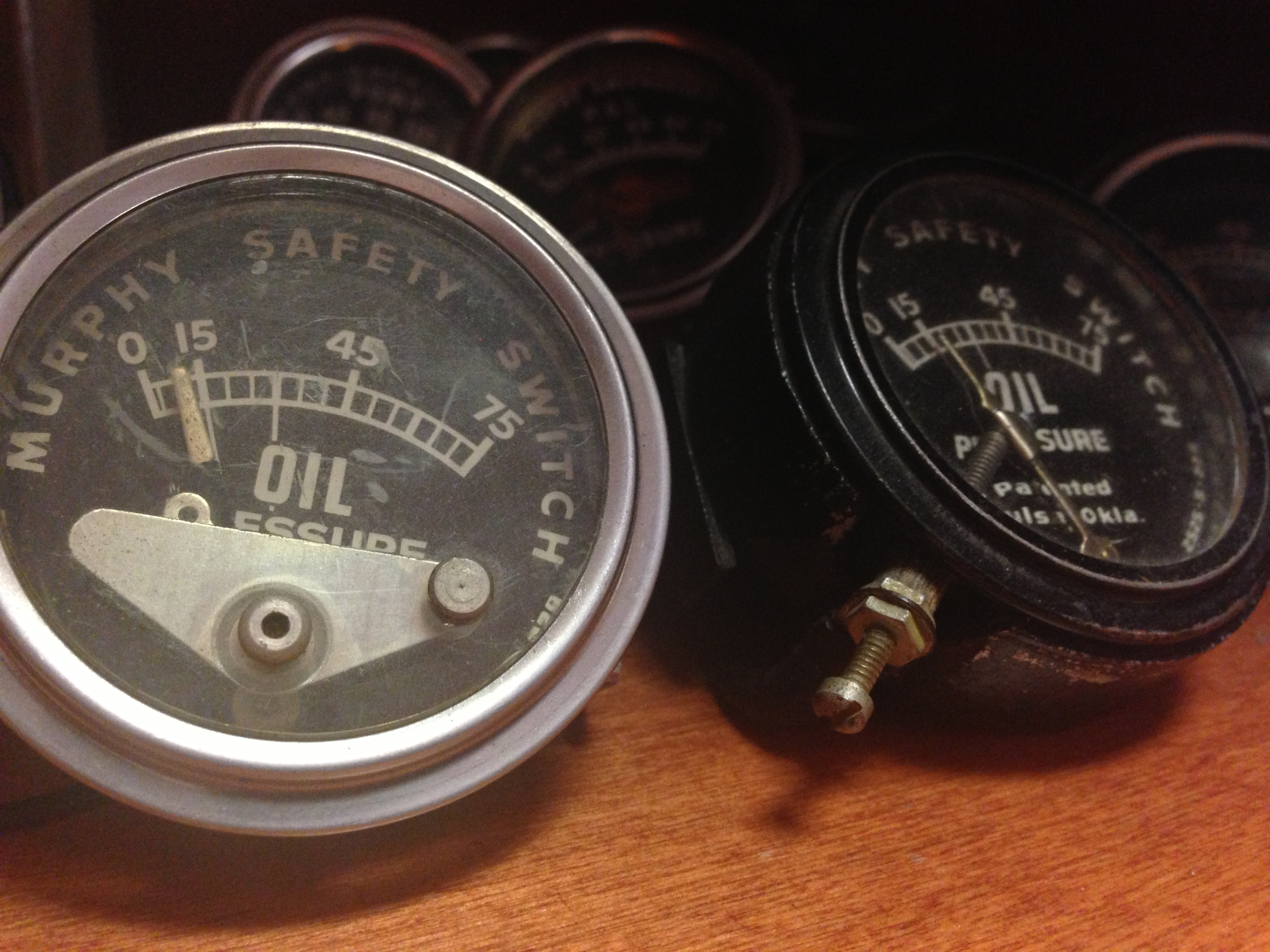 The classic oil pressure switch gauge made by FW Murphy in the 1950's